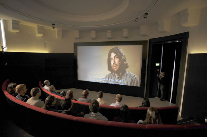 Media room of Landesmuseum für Vorgeschichte Sachsen-Anhalt in Halle, Germany